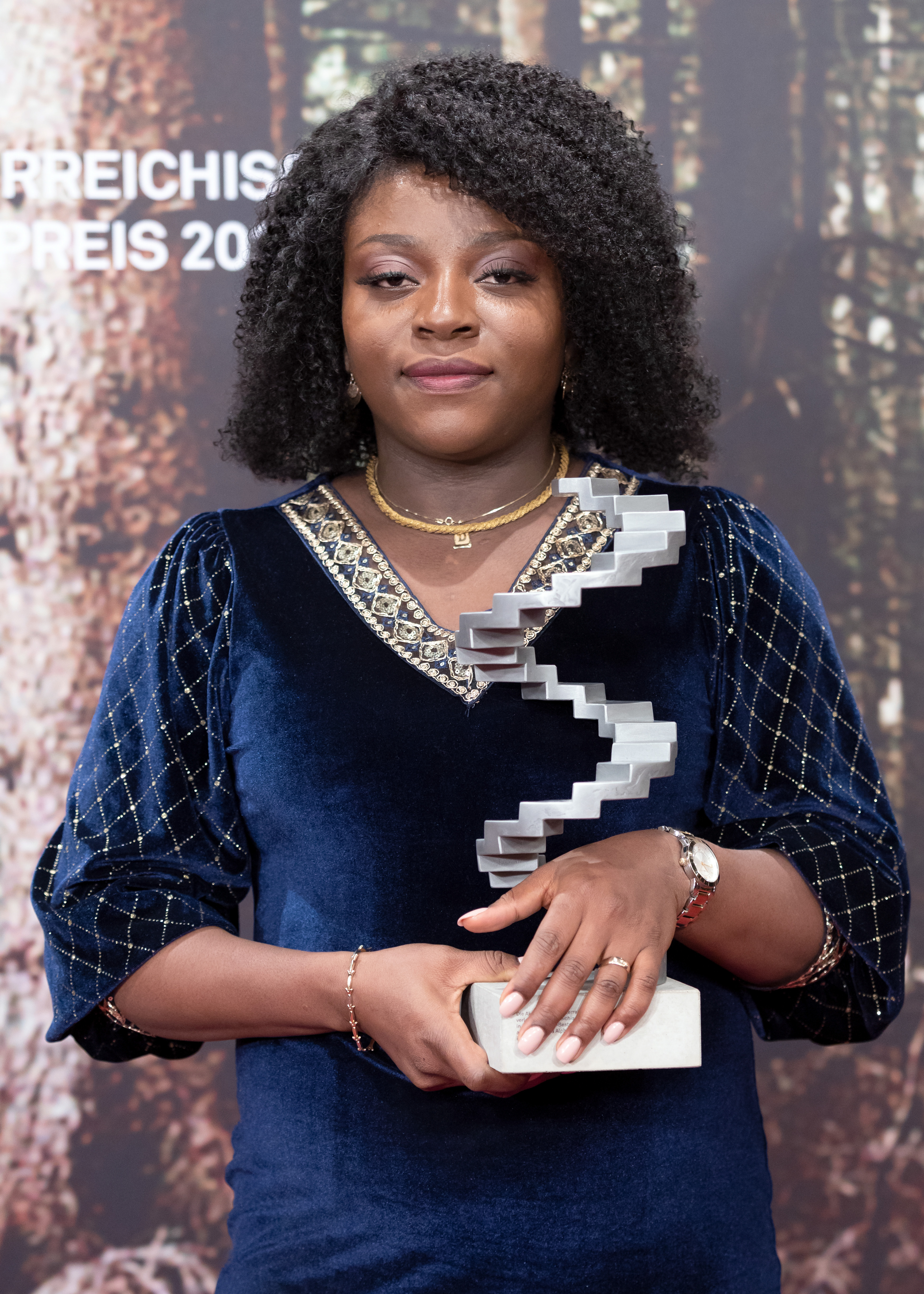 Joy Alphonsus (Joy) at the award ceremony of the Austrian Film Awards 2020 (Auditorium Grafenegg at Grafenegg Castle, Lower Austria,Austria).